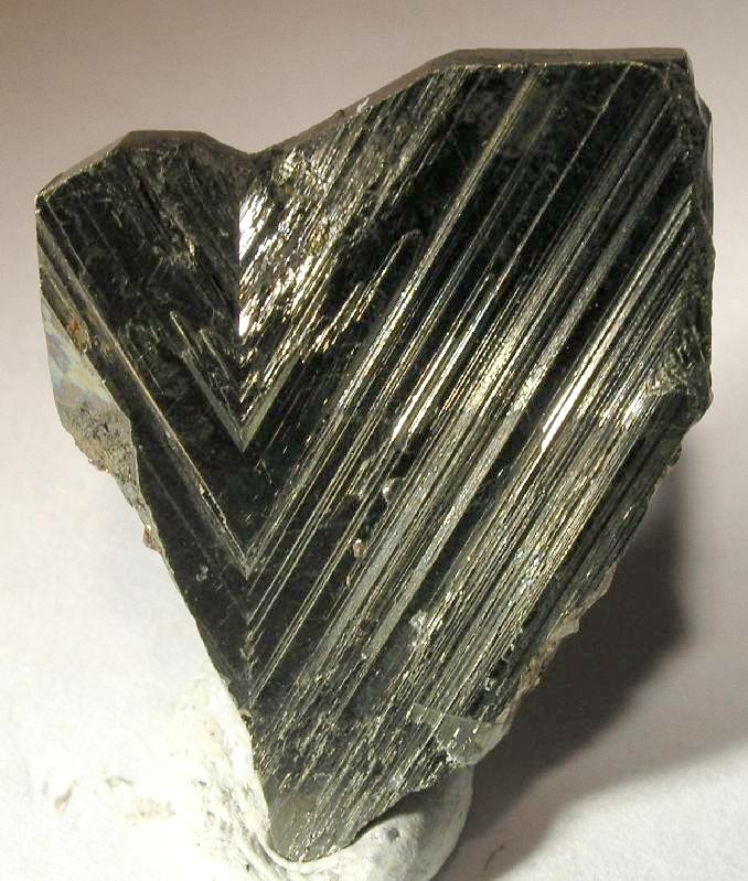 Cubanite Locality: Henderson No. 2 mine, Chibougamau, Nord-du-Québec, Québec, Canada (Locality at ) Size: thumbnail, 2.9 x 2.2 x .4 cm Cubanite Twinned Cubanite with excellent metallic luster and dark brassy color. 2.9 x 2.2 x .4 cm